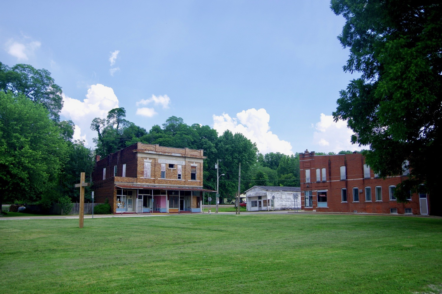 View of Hazleton, Indiana, United States, with the Independent Order of Oddfellows (IOOF) building on the left, and Town Hall on the right.